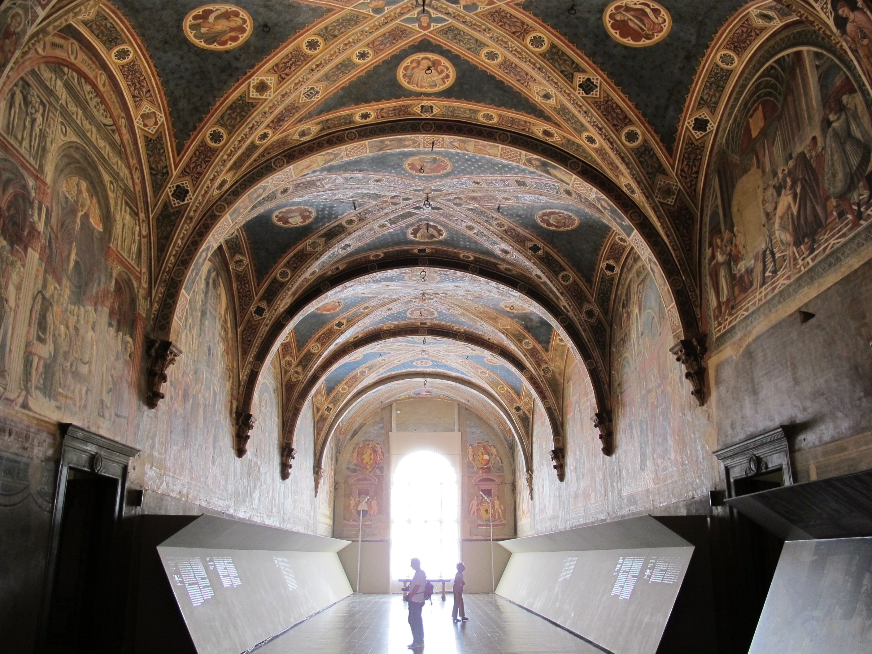 Pilgrims Lane in Santa Maria della Scala Hospital (Siena)